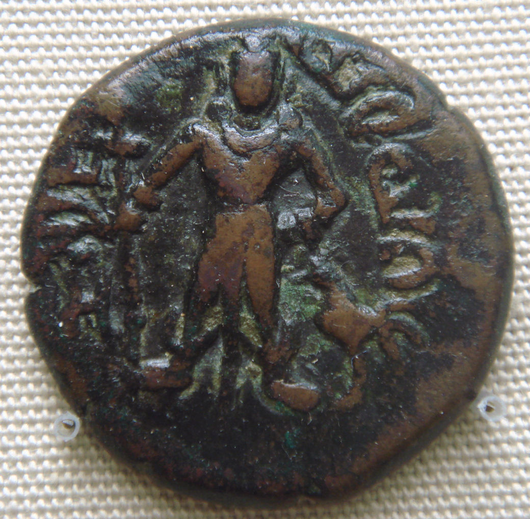 Karttikeya With Spear And Peacock, coin of the Yaudheyas